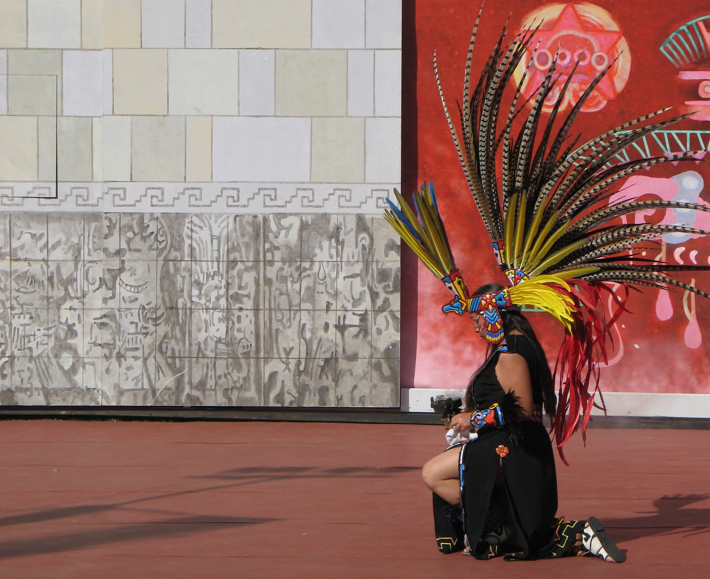 Part of a ceremony just before the game of pok-ta-pok